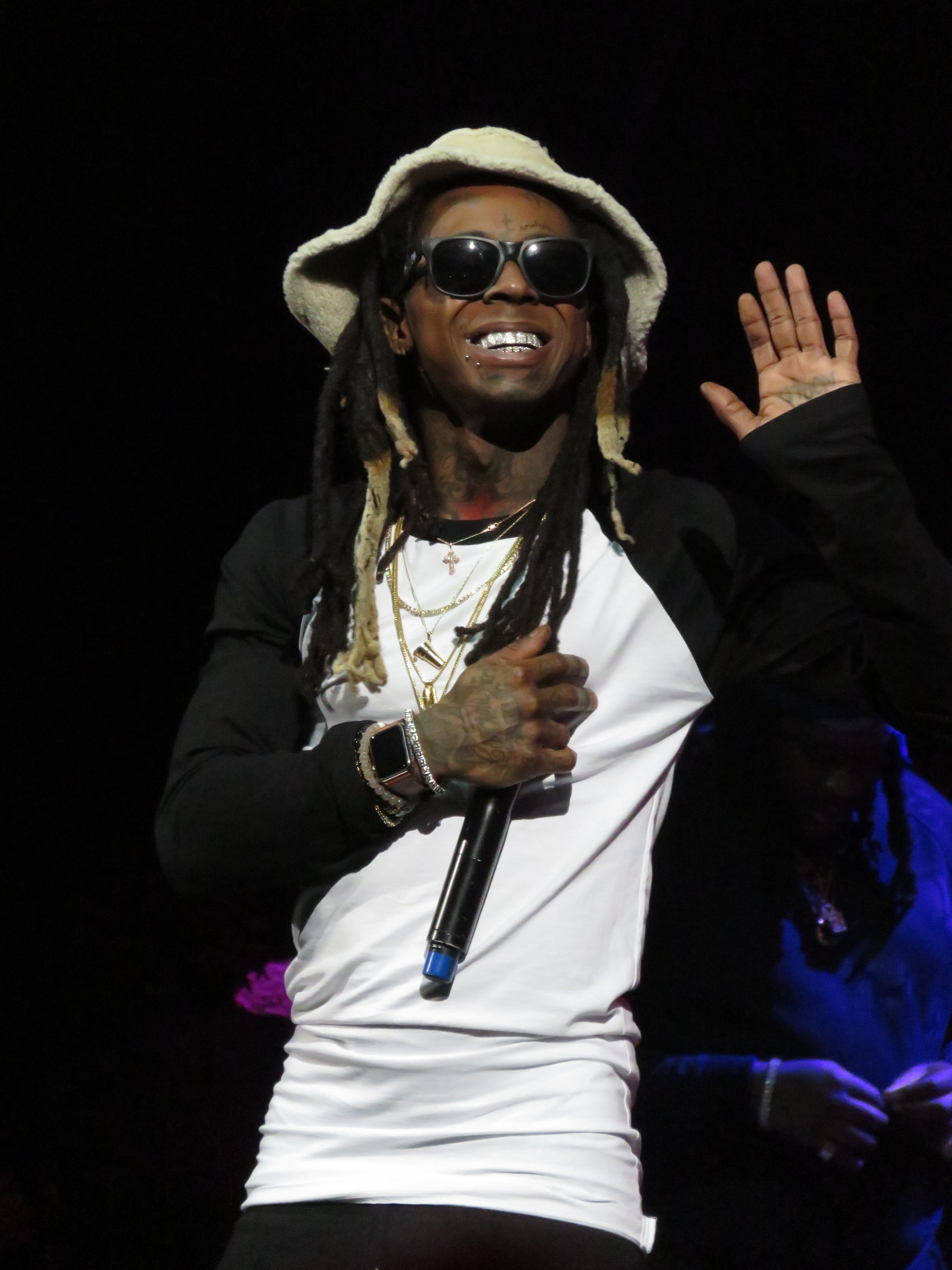 Lil Wayne + Yung Jeezy (Dec. 19th, Biloxi, MS)